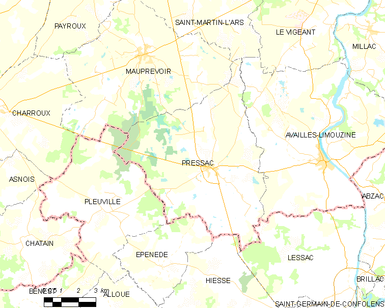 Map of French municipality Pressac